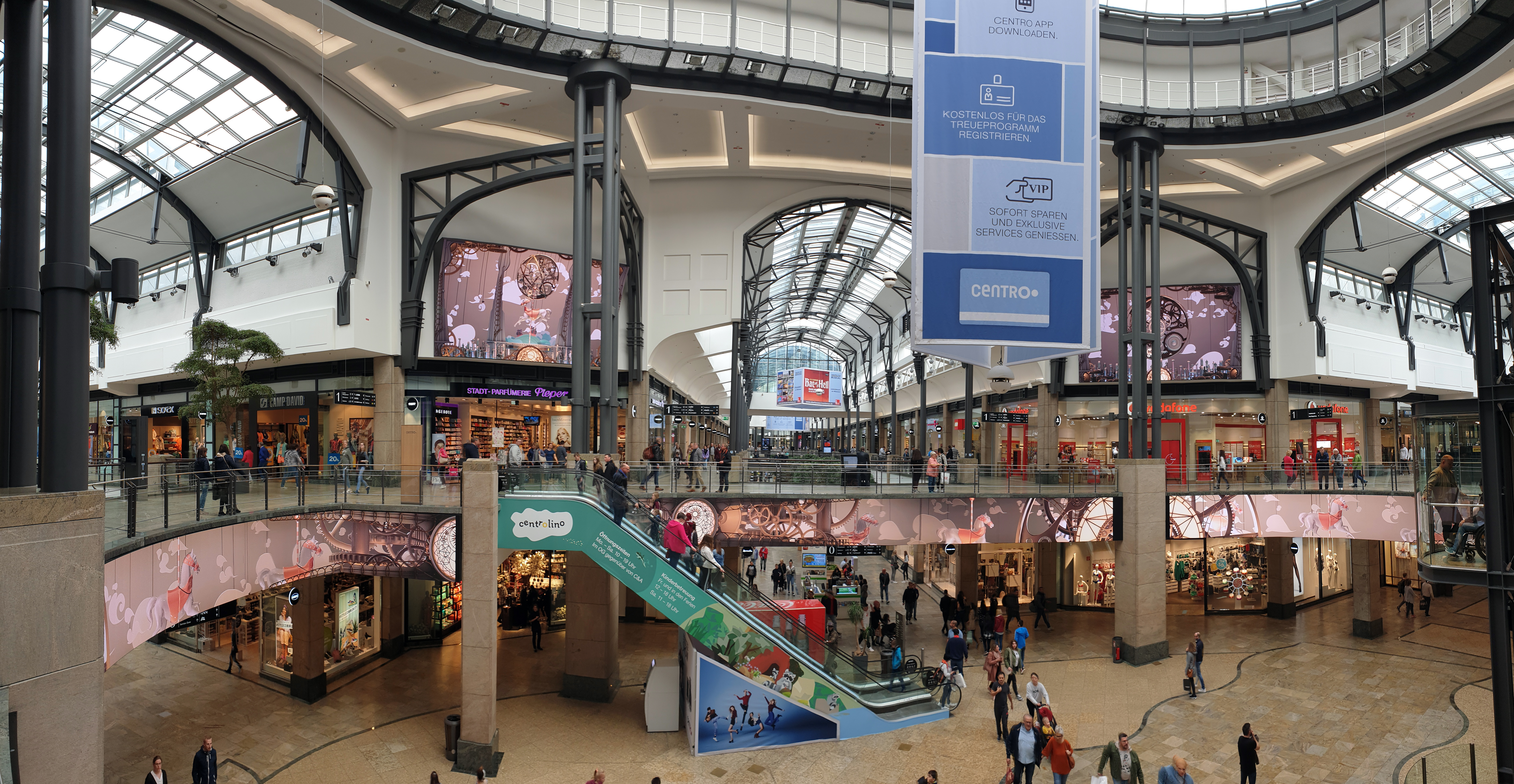 Interior of Shopping Center CentrO in Oberhausen, Germany